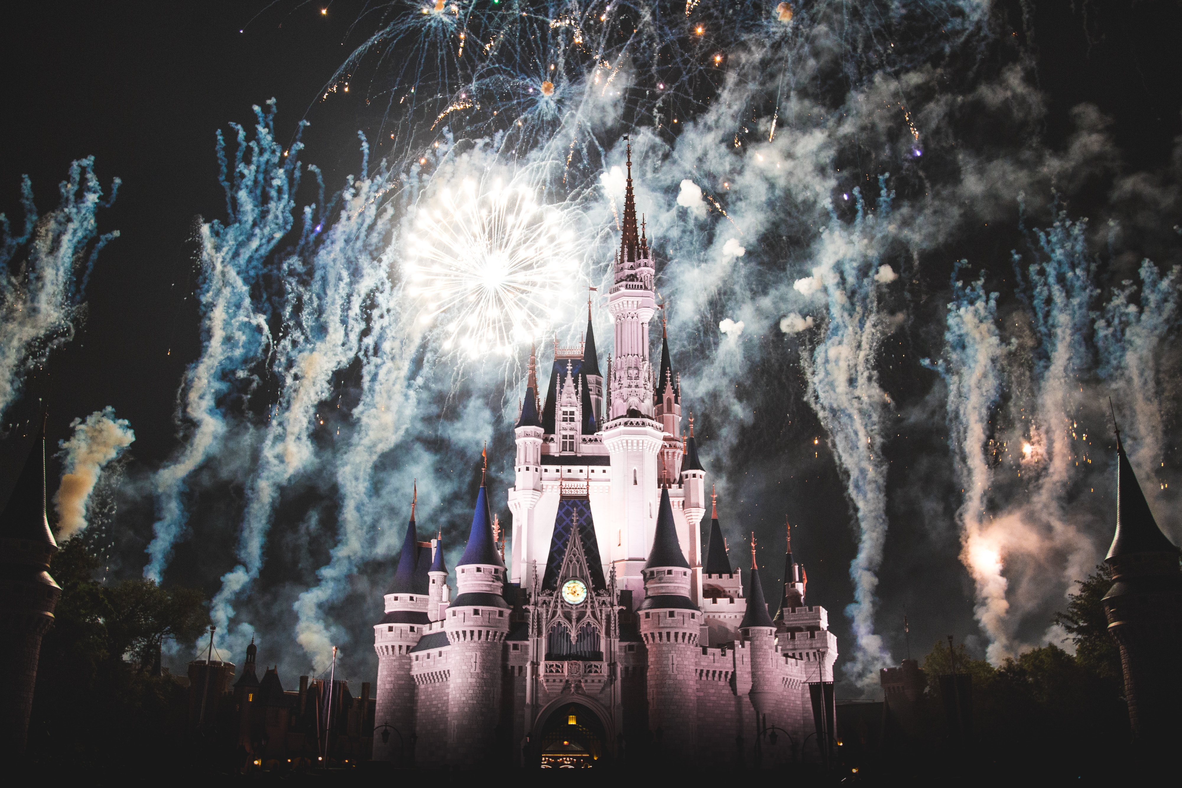 Wishes